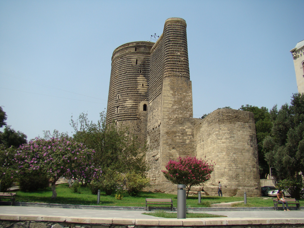 BAKU